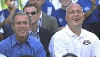 American baseball player Cal Ripken, Junior observes a youth tee ball game with President George W. Bush at the White House.